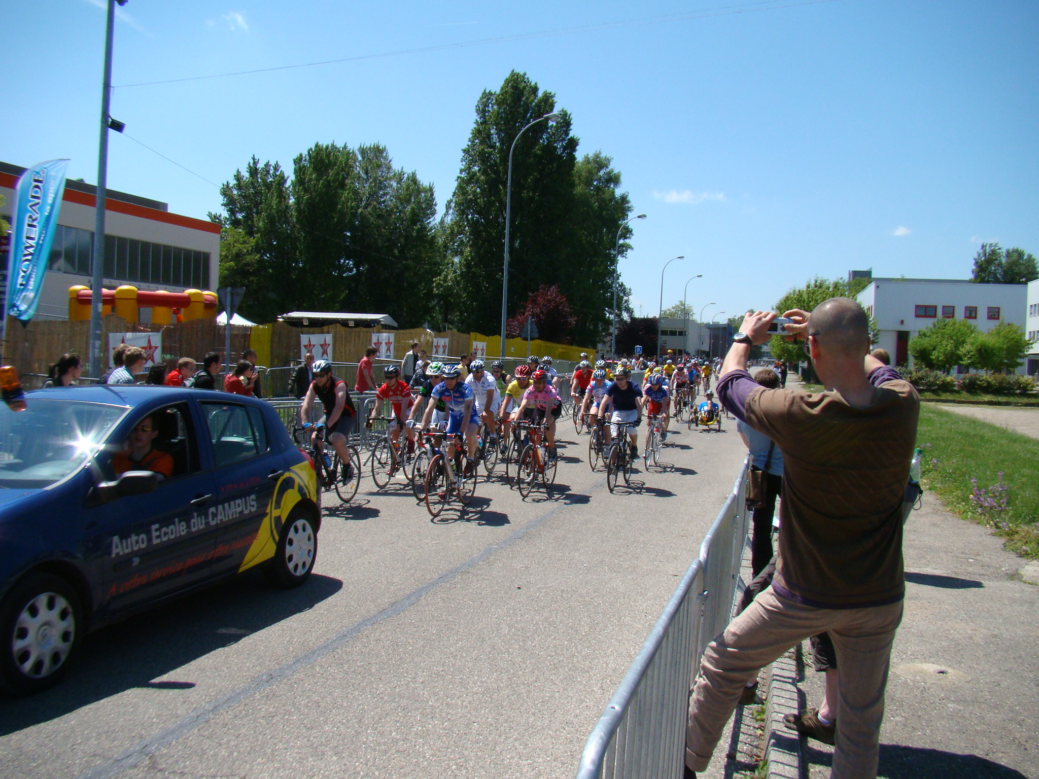 Picture taken during the "Les 24h de l'INSA" in Villeurbanne, France, May 2009